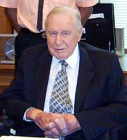 President James E. Faust, the Second Counselor in the First Presidency of The Church of Jesus Christ of Latter-day Saints (LDS Church) from 1995 until his death, and an LDS Church apostle for 29 years, and a general authority of the church for 35 years.